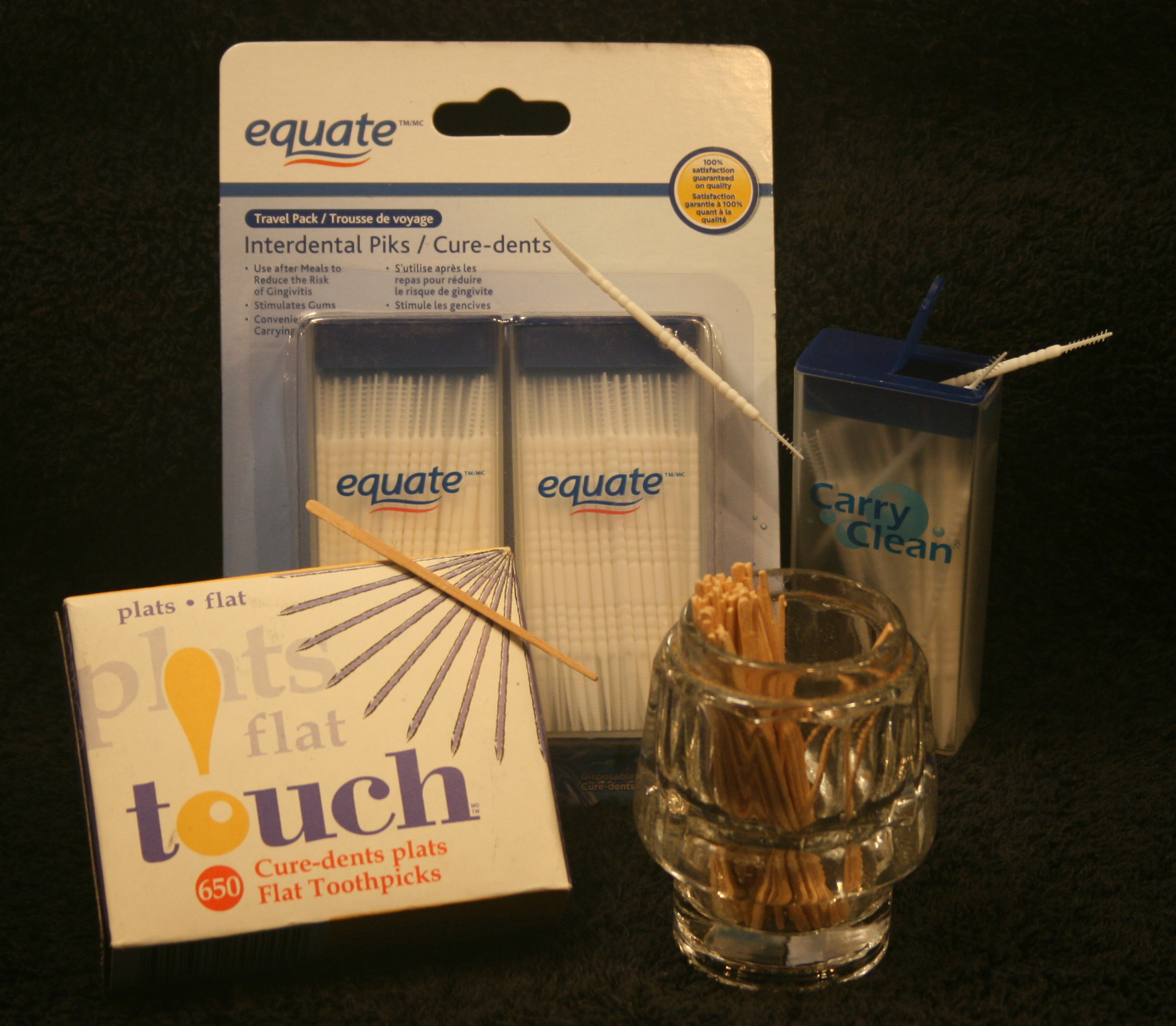 Variety of tootpics